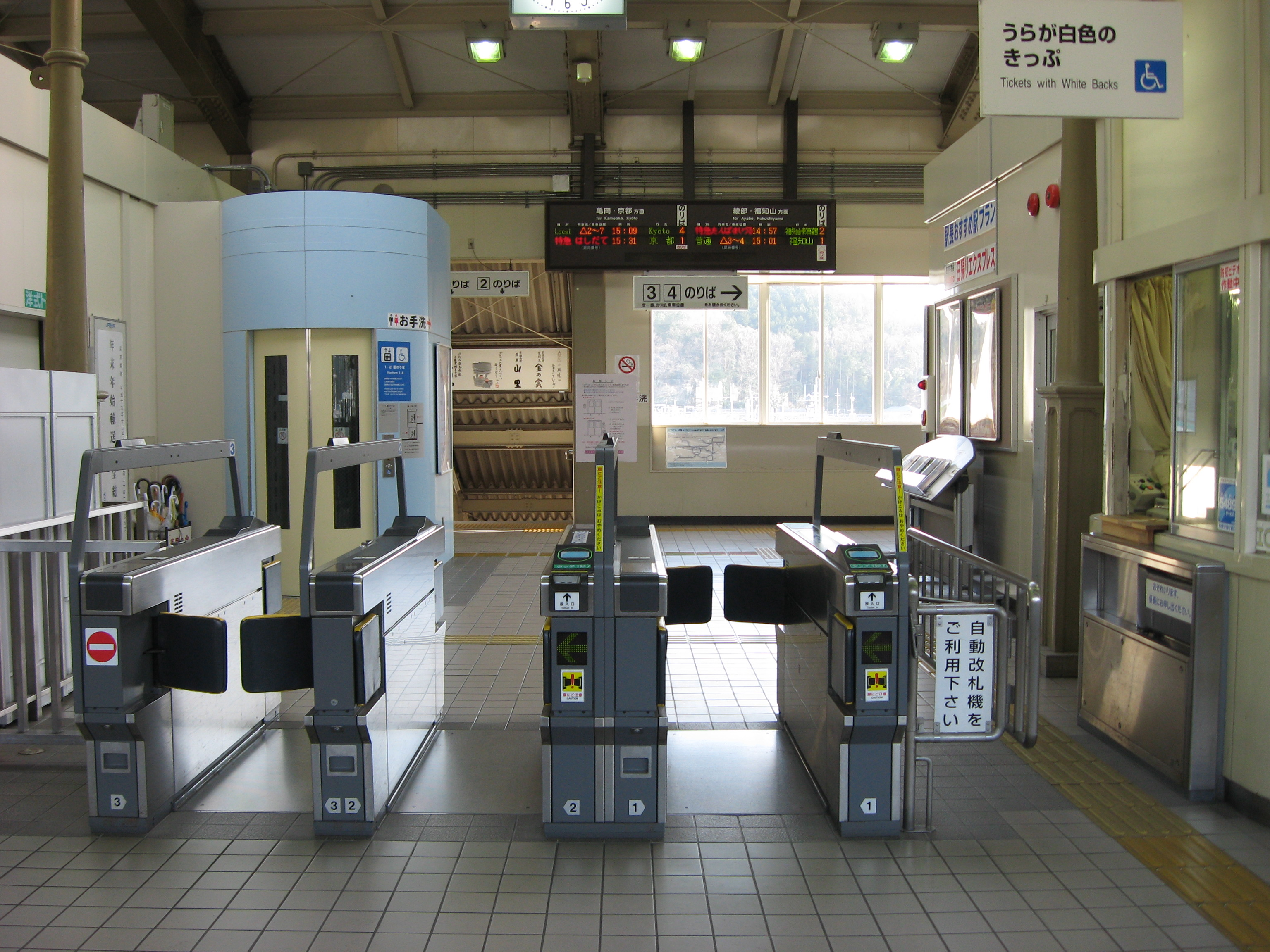 JR Sonobe Station Ticket Gate